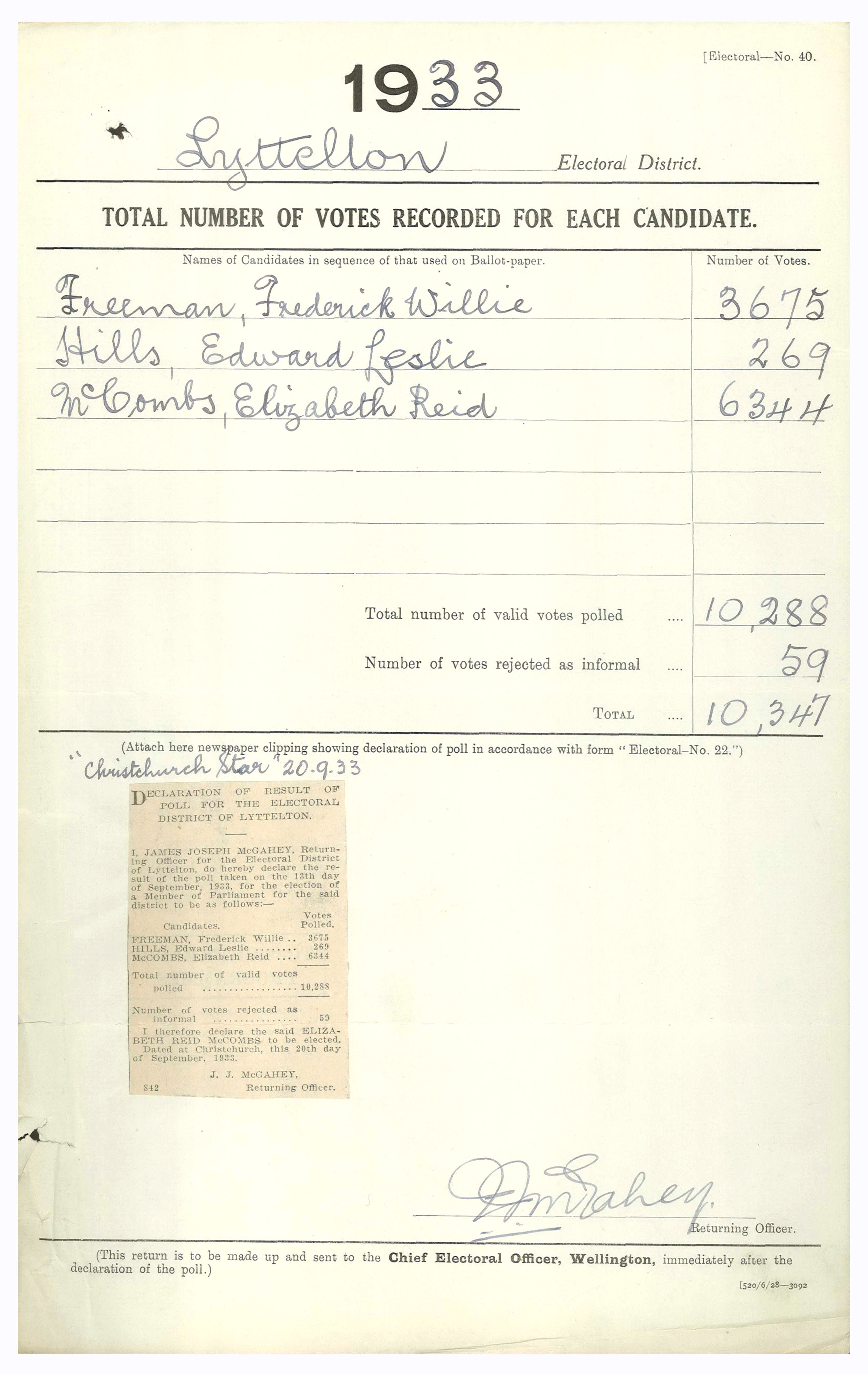 On 13 September 1933, Elizabeth Reid McCombs became the first woman in New Zealand to be elected to parliament. McCombs stood in the Chathams-Lyttelton 1933 by-election. She comfortably won the seat, taking 6344 of the 10,288 eligible votes. Her closest rival, Frederick Willie Freeman, gained 3,675 votes, leaving Edward Leslie Hill with only 269. The final tally included 59 rejected votes, and 42 ballots cast by Seamen, of which 41 voted for McCombs. The image above is from a file transferred to Archives New Zealand from the Electoral Department. It shows the total number of votes for each candidate, and J. J. McGahey, the Returning Officer, publically declaring “the said Elizabeth Reid McCombs to be elected.” Archives Reference: ADOR 17102 EL12 21 7/44/1 (R11288171) For updates on our On This Day series and news from Archives New Zealand, follow us on Twitter: Material from Archives New Zealand